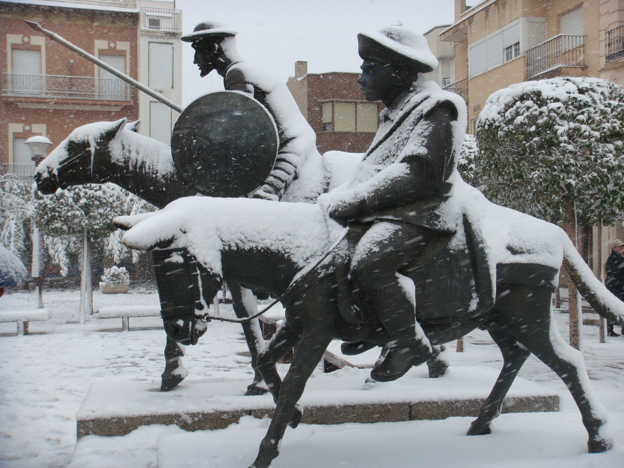 Don Quixote's monument in Alcázar de San Juan, covered with snow.